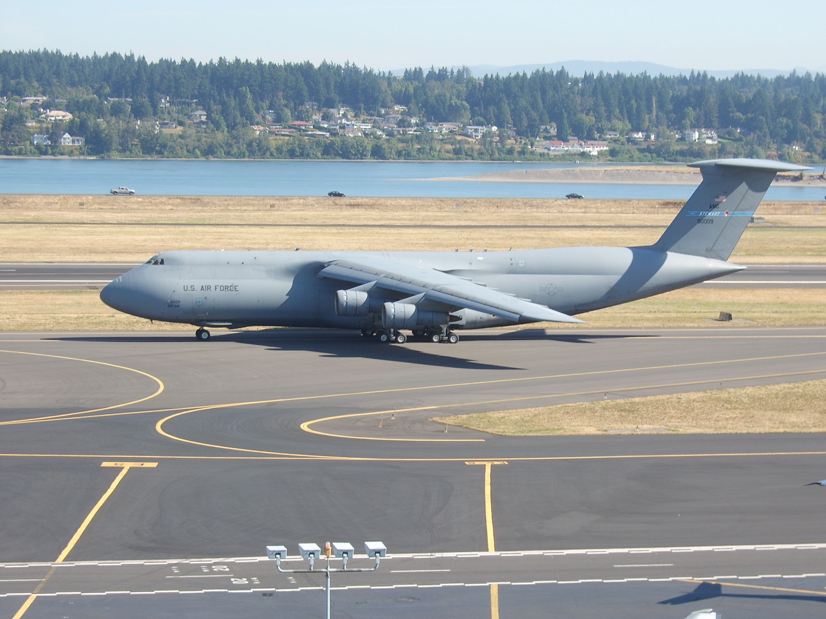 Lockheed C-5A from the 105th Airlift Wing based at Stewart Air National Guard Base taxiing for takeoff at Portland International Airport